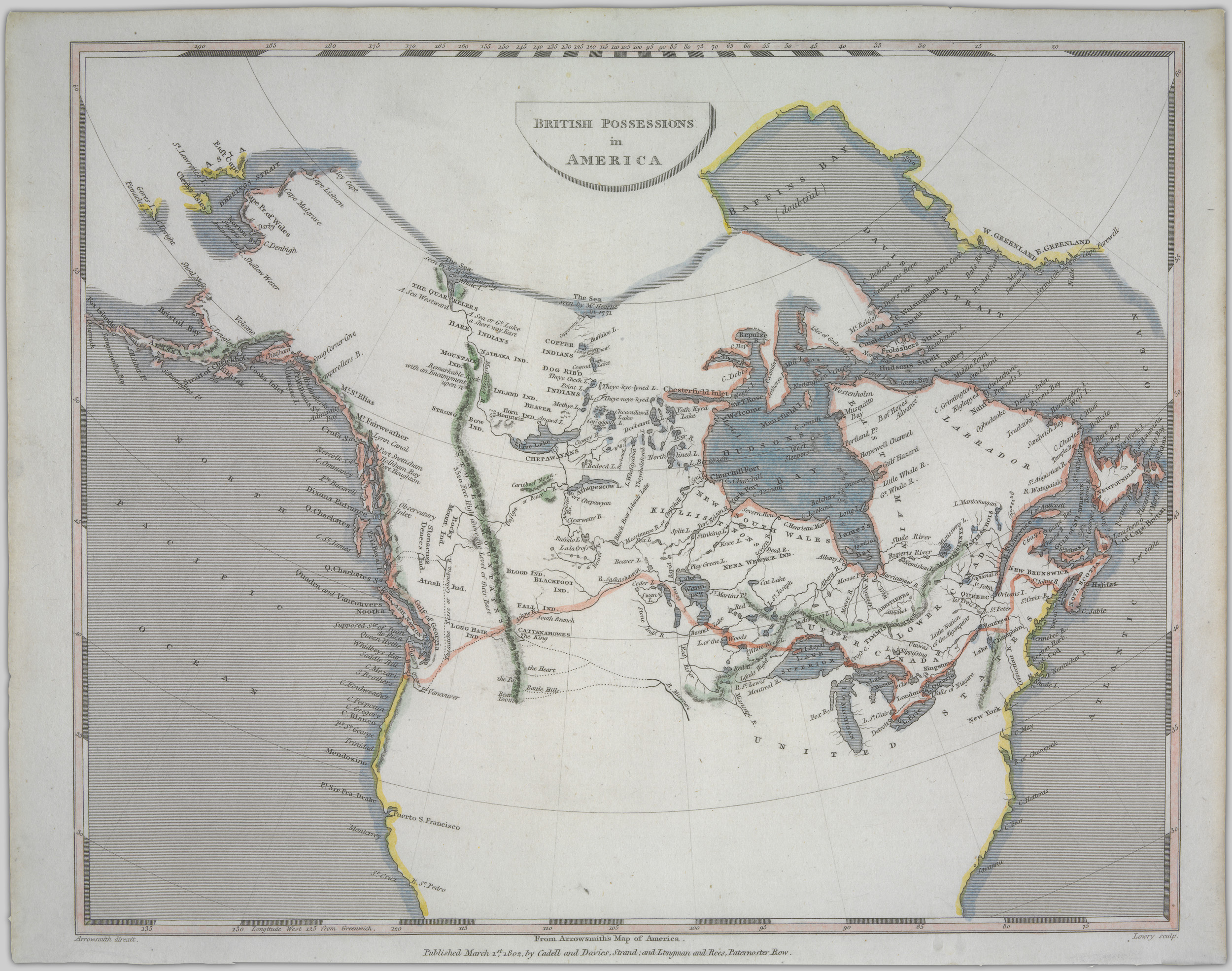 No known copyright restrictions. Please credit UBC Library as the image source. For more information, see Creator: Arrowsmith, Aaron, 1750-1823 and Lewis, Samuel, -1865 Date Issued: 1802-03-01 Source: Original Format: University of British Columbia. Library. Rare Books and Special Collections. Andrew McCormick Maps and Prints. Permanent URL